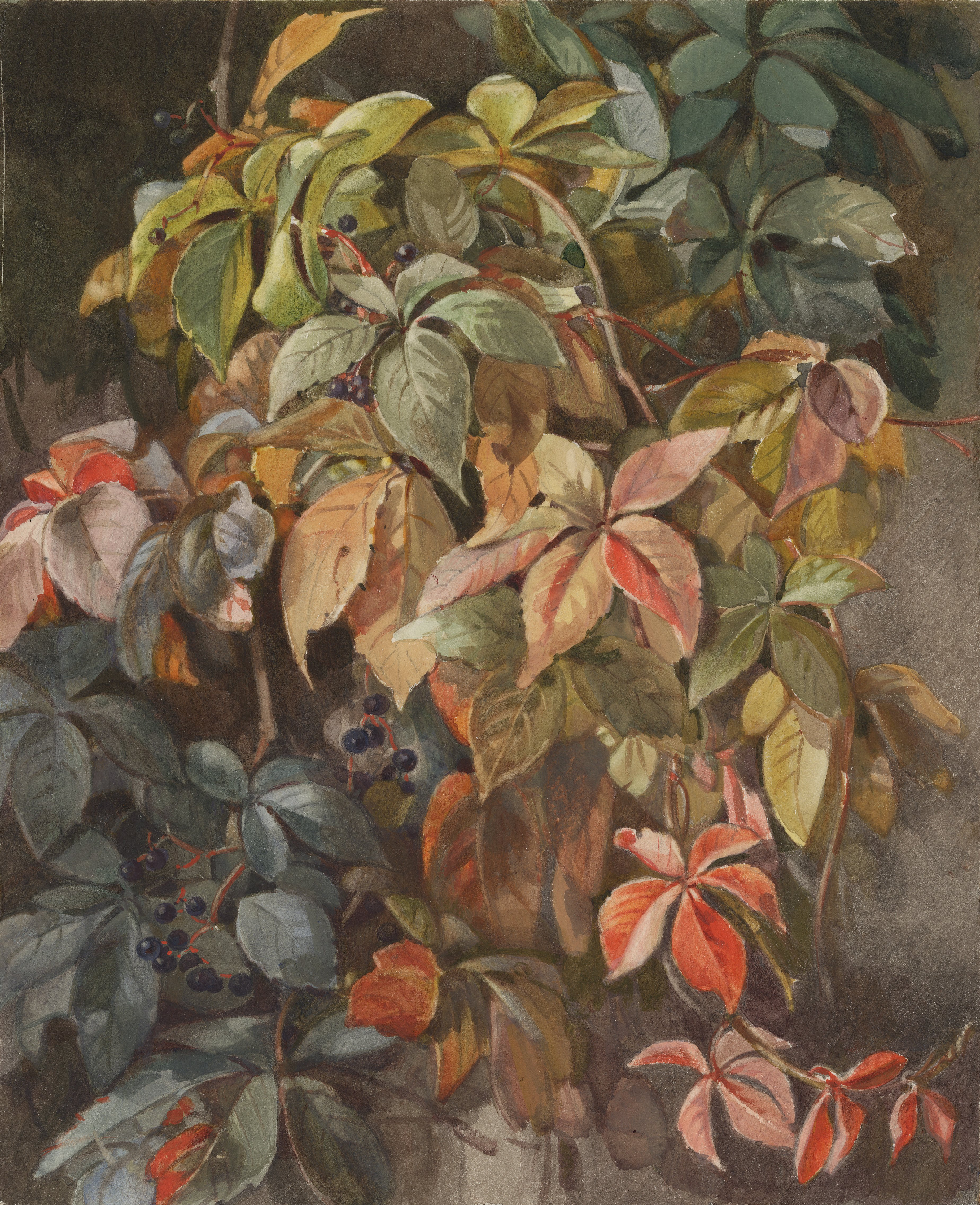 Title according to hs. Catalog, there marked "ndNat. 24.IX.75 20-18 St.", From the possession of the son of Egbert Stockar (1842-1903), whose daughter Bertha Schindler Stockar (1876-1961) and their daughter Ella Ninck Schindler (1898-1996), Virginia creeper or Parthenocissus quinquefolia.